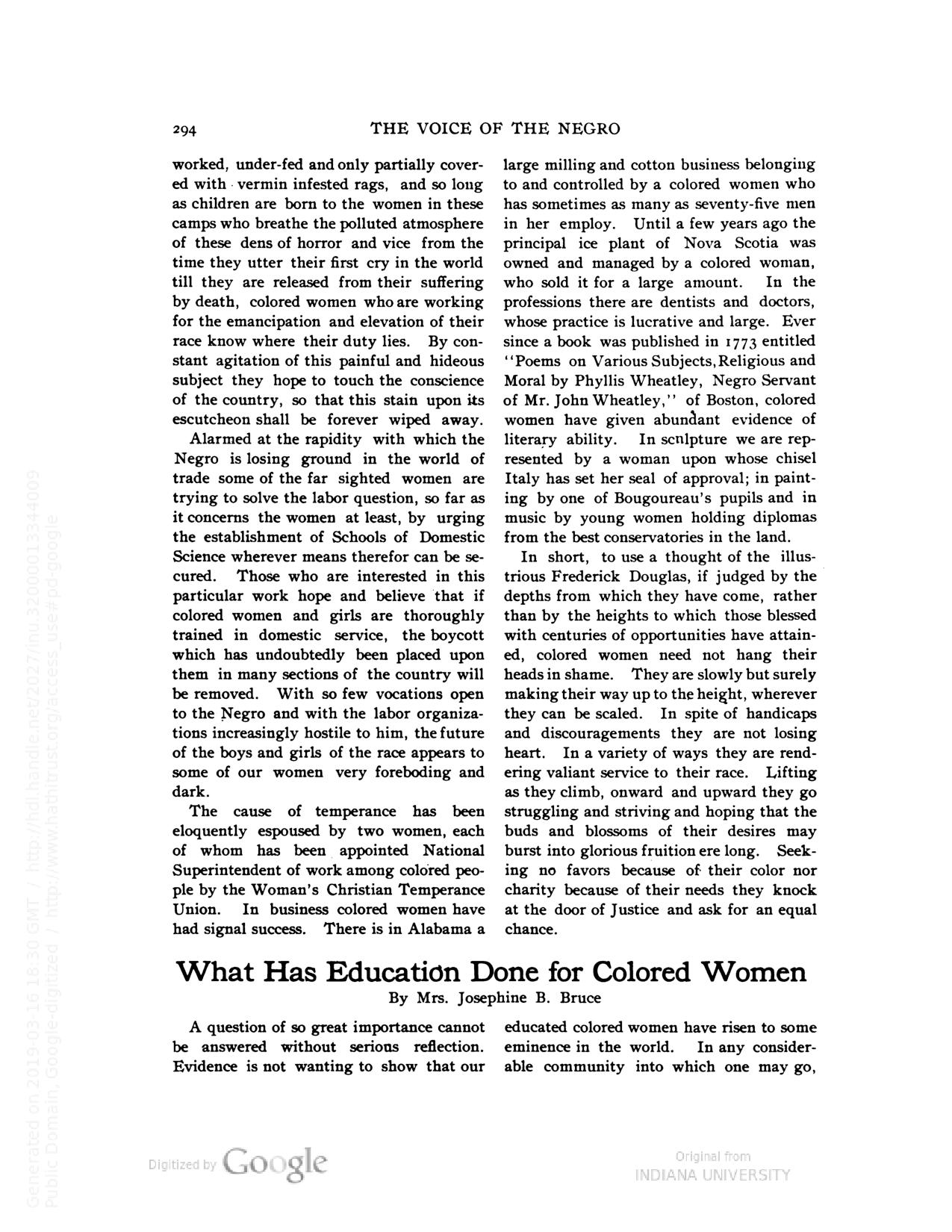 This file contains writings from early 20th century American activist Josephine Beall Willson Bruce. it details some of her views about education and African American women.